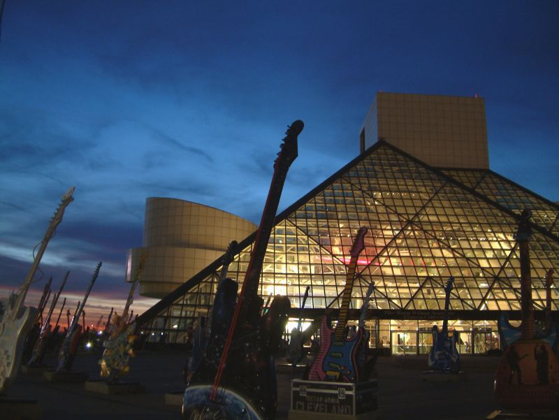 The Rock and Roll Hall of Fame, Cleveland, Ohio